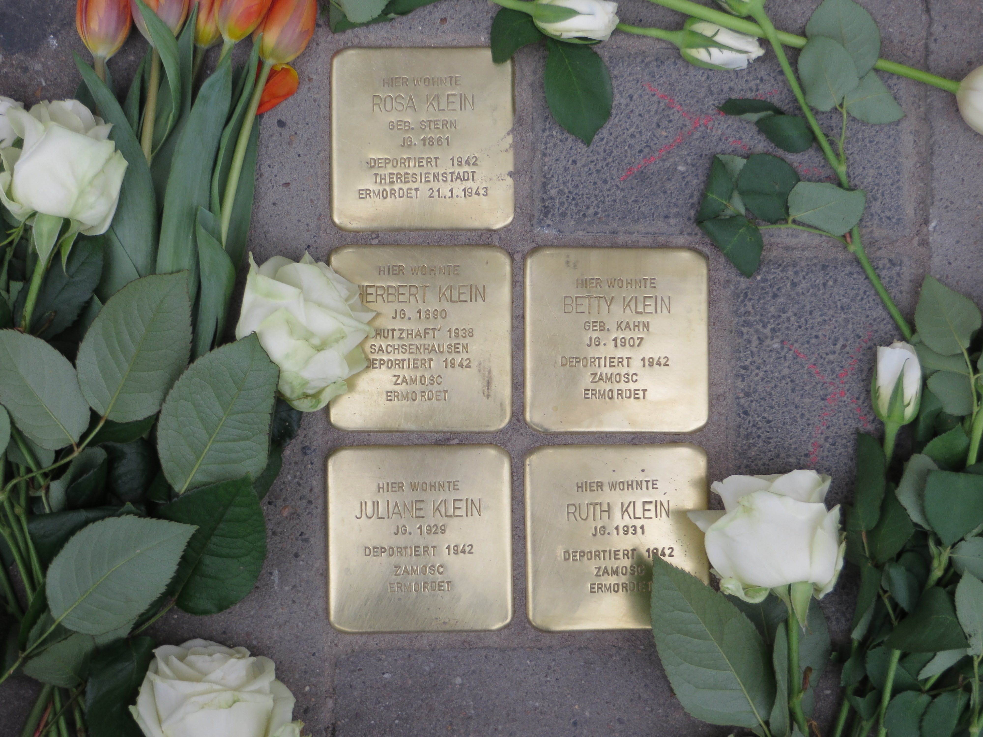 Stolpersteine at house Oberstraße 7 in Witten, Germany